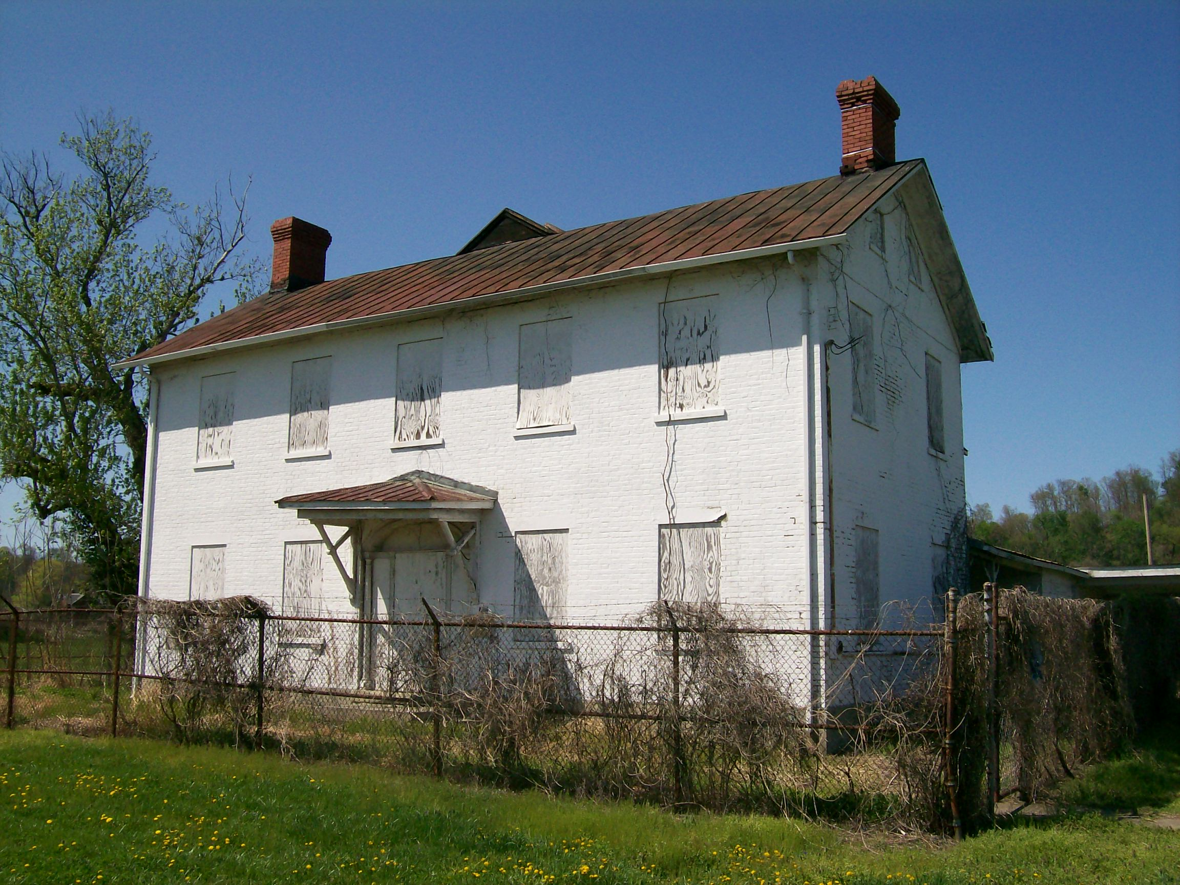 Southern front of the Judge Joseph Barker House, located along State Route 7 above the Ohio River southwest of Newport in Newport Township, Washington County, Ohio, United States. Built in 1832 and since converted into offices for the Corps of Engineers, it is listed on the National Register of Historic Places.